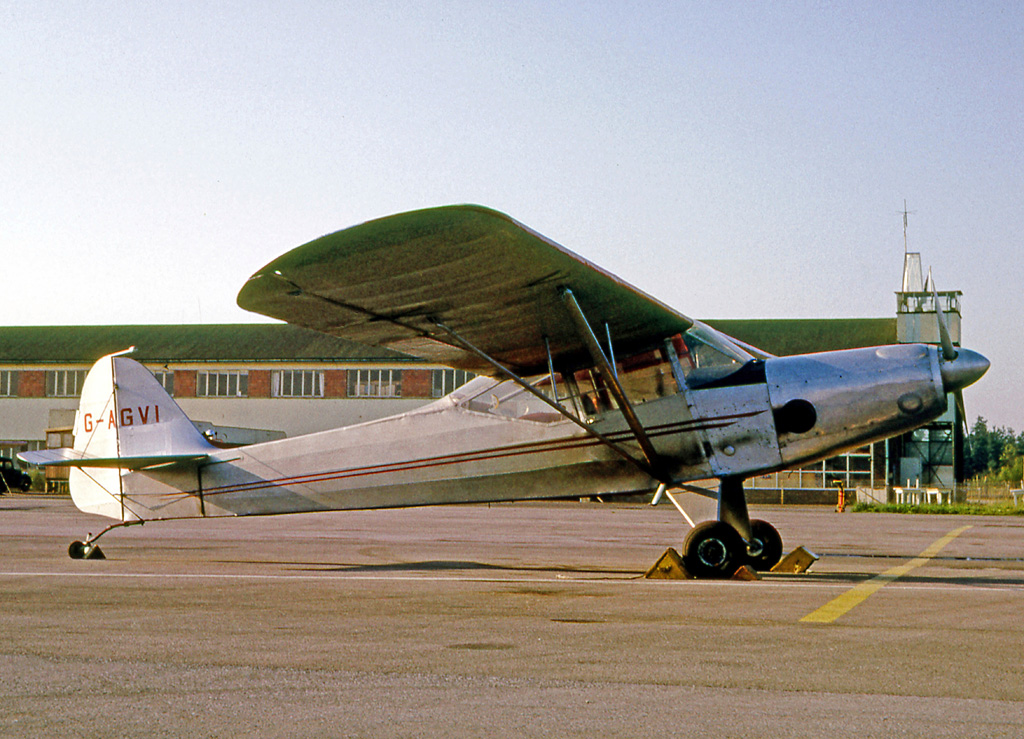 Auster J/1 Autocrat G-AGVI powered by a Rover TP turboprop engine at Blackbushe airfield, Hants, in 1966